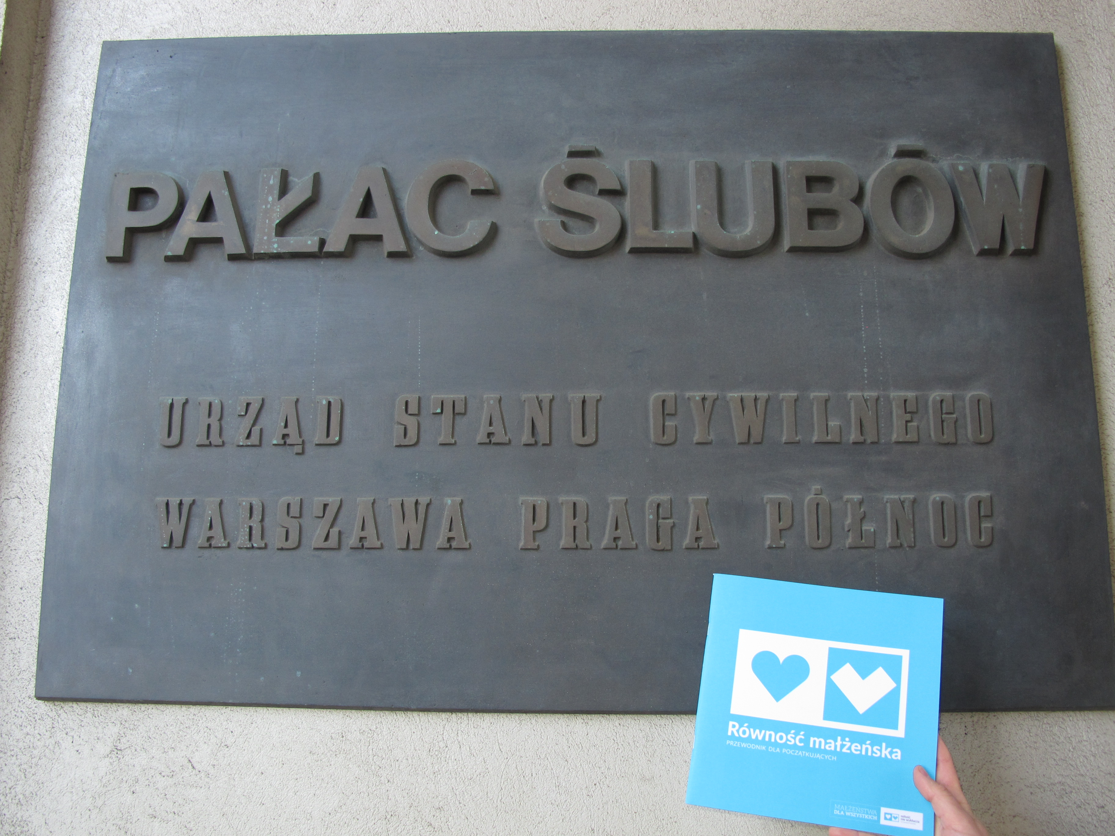 "Marriage Equality. Beginners’ Guide"